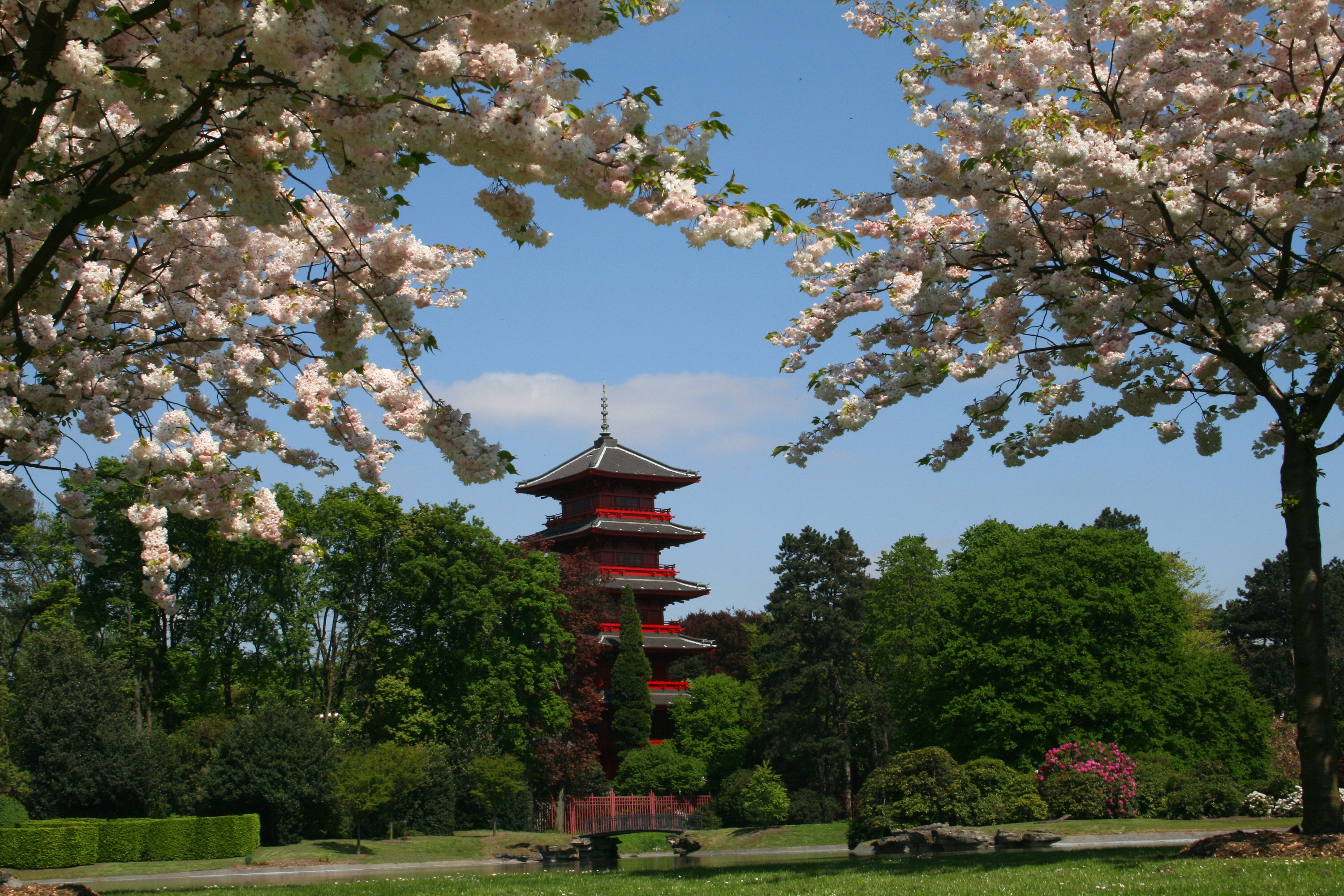 Laeken (Belgium), gardens of the Royal Castle and the Japanese tower.